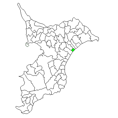 Location Map of former Hasunuma Village, Chiba Prefecture, Japan, now part of Sanbu City.